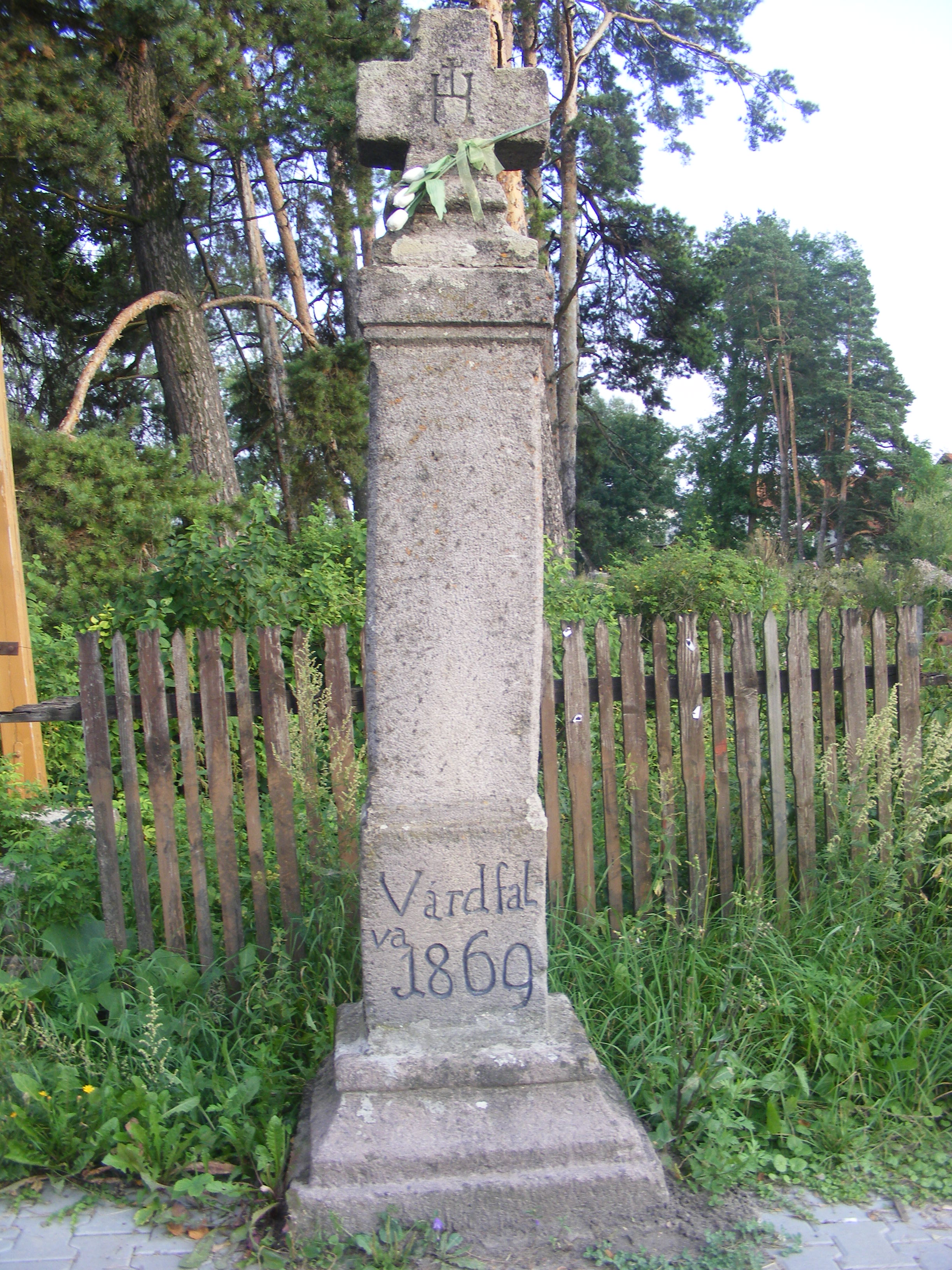 A memorial for Várdotfalva (now this village is a part of the Csíkszereda, Mercurea Ciuc)